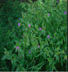 Flora